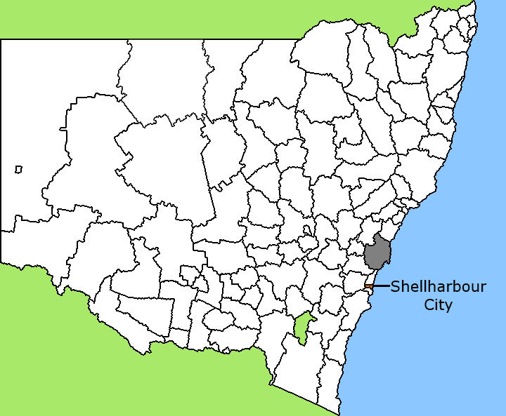 Map of New South Wales/Australia, LGA of the City of Shellharbour highlighted